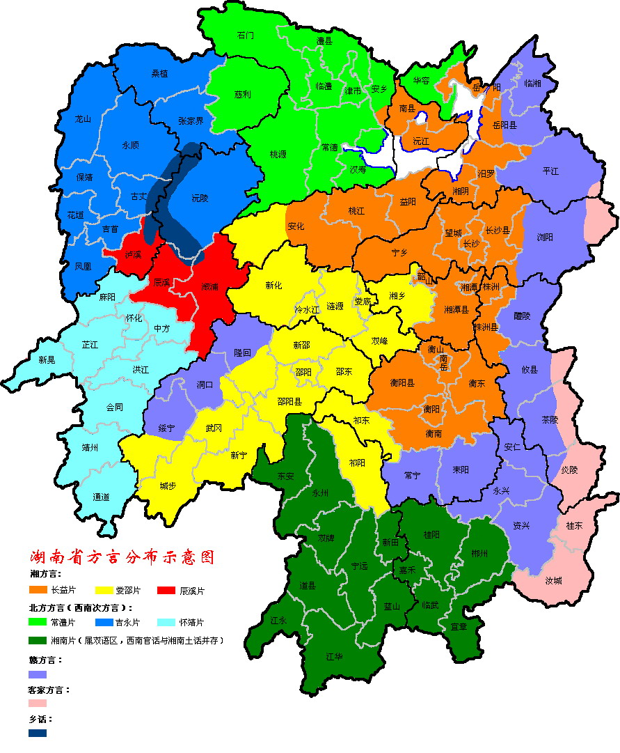 Linguistic map of Hunan province, China, approximately following the Language Atlas of China (1987). Xiang New Xiang (Chang–Yi) Old Xiang (Lou–Shao) Ji–Xu (Chen–Xu) Southwest Mandarin Changhe Jishui Huaijing Xiangnan Other Gan Hakka Waxiang